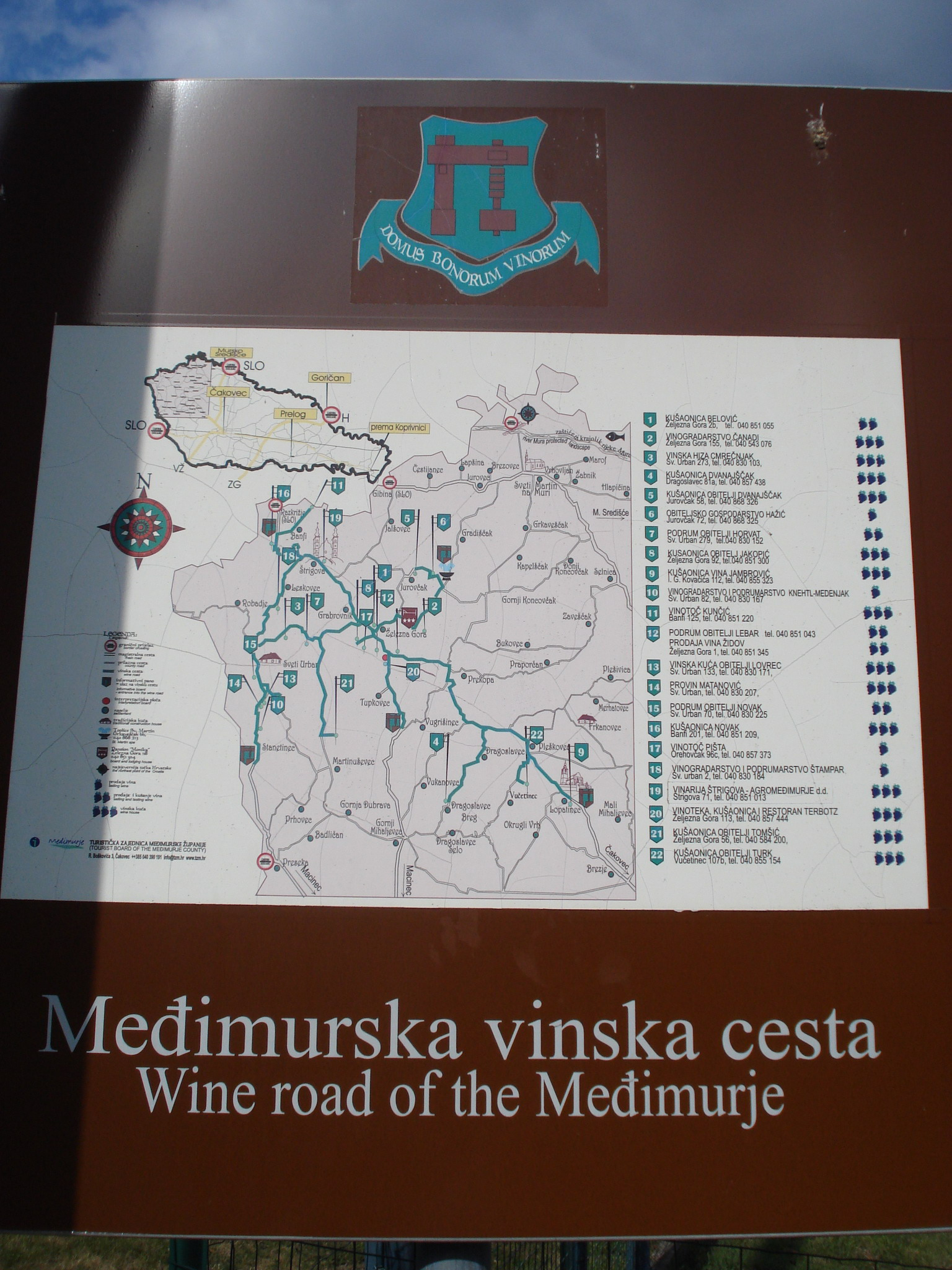 Međimurje Wine Road information board in Lopatinec (Croatia) - close-upHrvatski: Obavijesna ploča Međimurske vinske ceste u Lopatincu (Hrvatska) - krupni plan